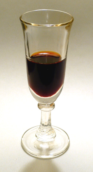 A glass containing a tincture of white willow (Salix alba) bark, made with vodka. Photo taken in Kent, Ohio with a Panasonic Lumix digital camera (model DMC-LS75). This tincture, which contains salicylic acid, is used in a manner similar to aspirin.